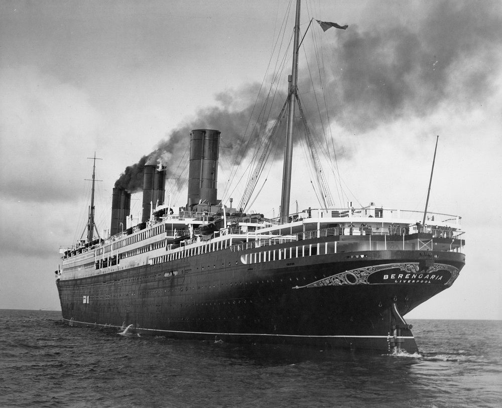 View of the passenger liner Berengaria heading out to sea after her conversion from coal to oil burning engines at the Walker Naval Yard